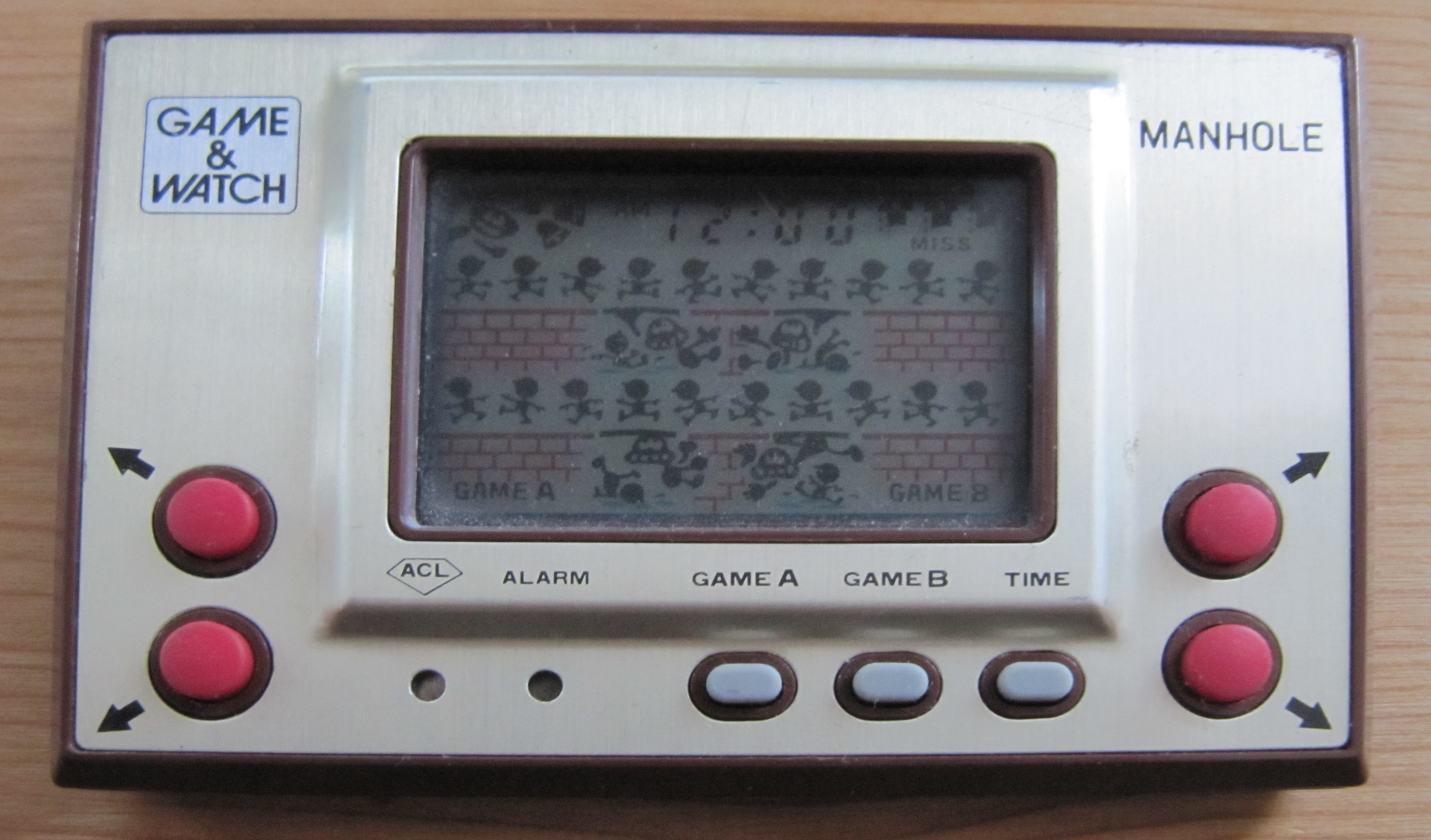 Manhole